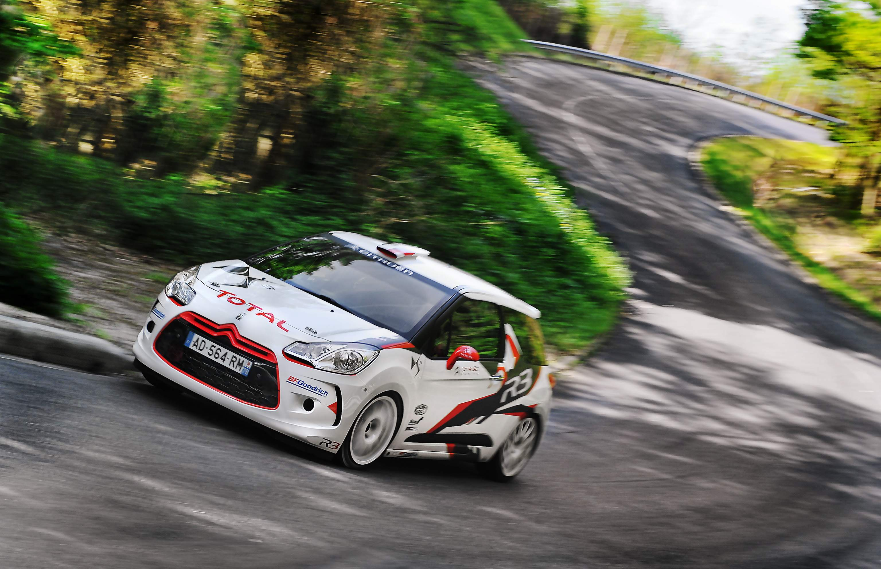 Promotional photo of the Citroën DS3 R3.